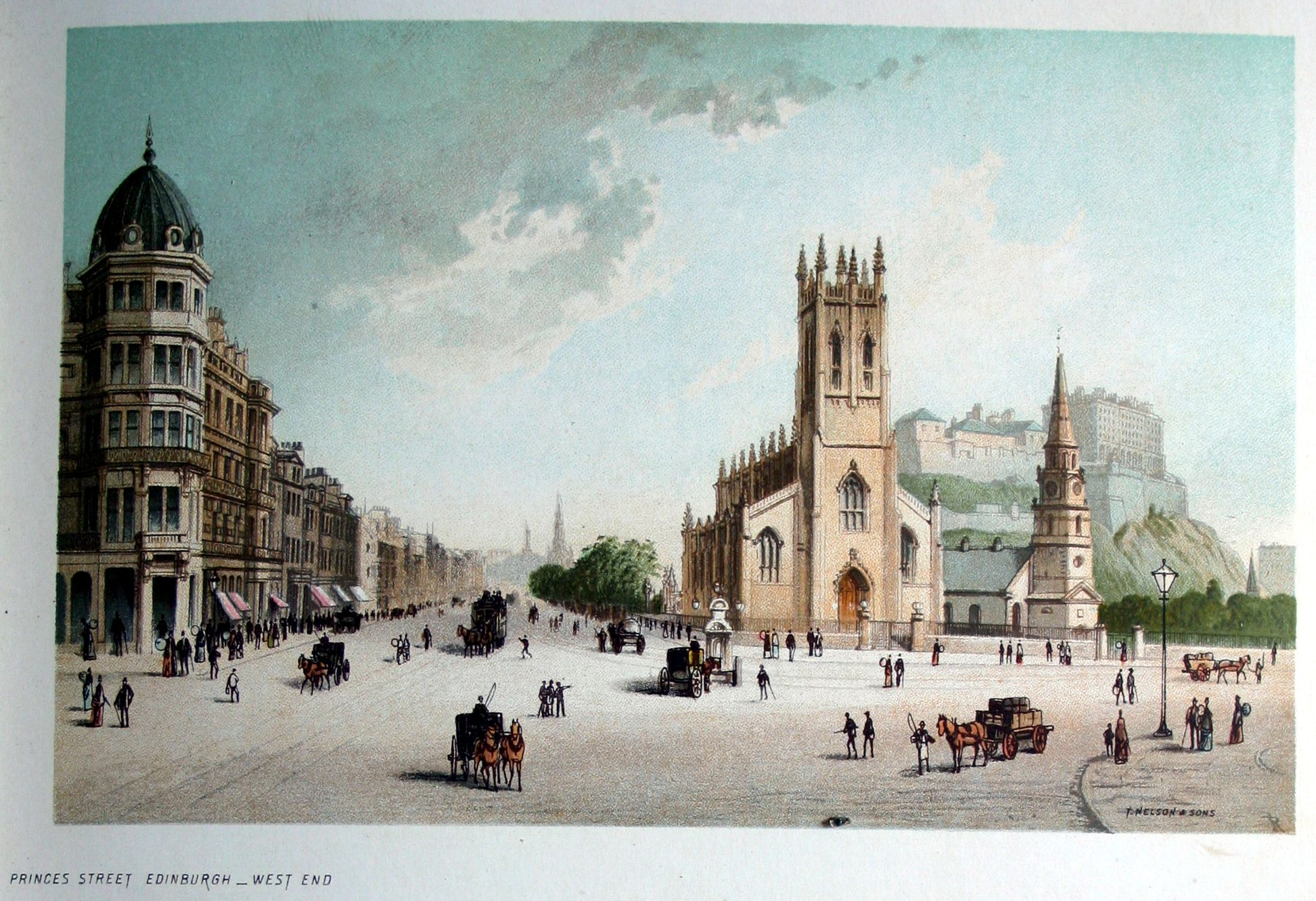 "Souvenir of Scotland"